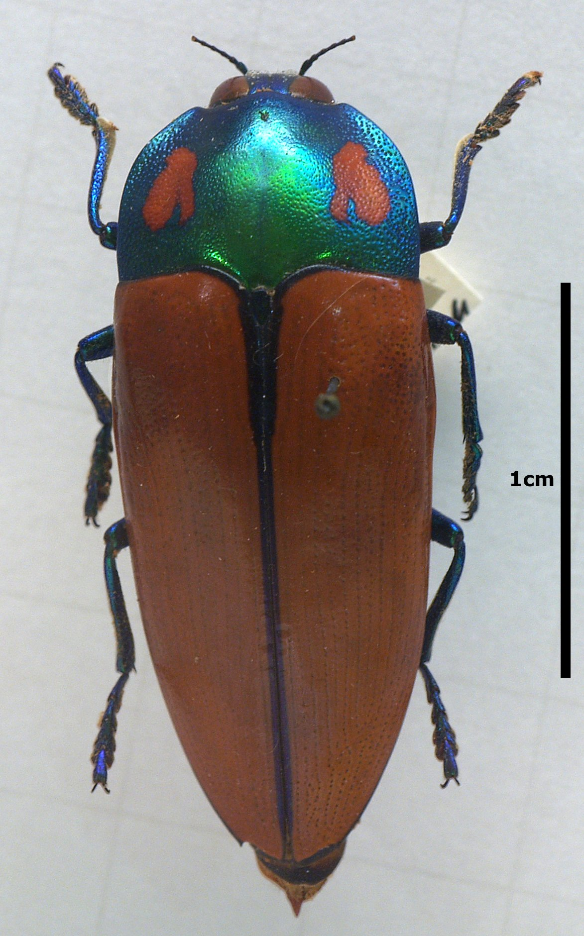 Calodema kirbyi from Australia. Mounted specimen.